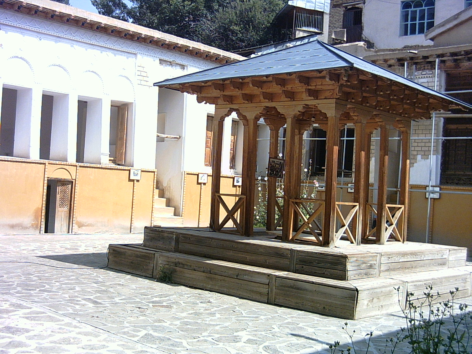 Nima Yushij's tomb, Yush, Mazandaran Province, Iran